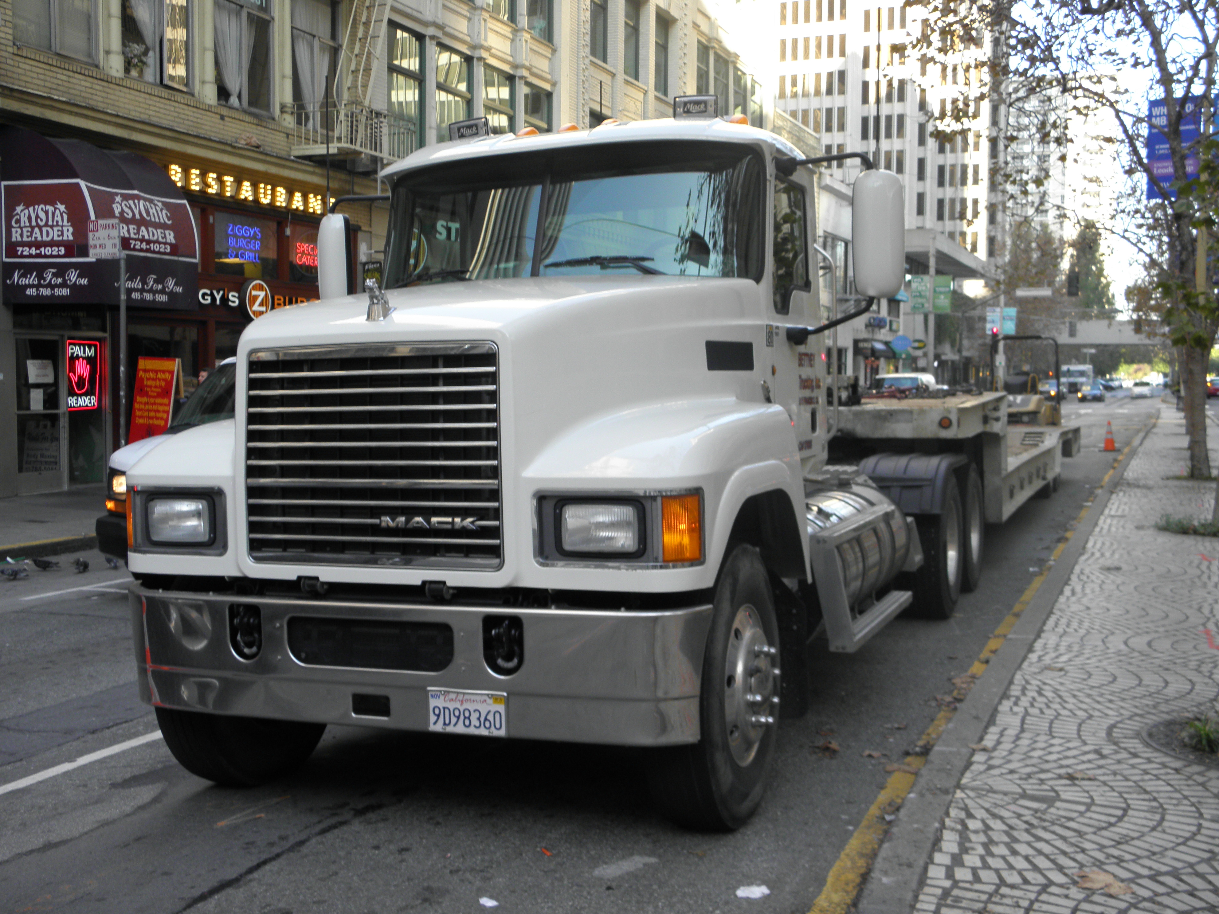 Current-generation Mack Pinnacle conventional with set-forward front axle